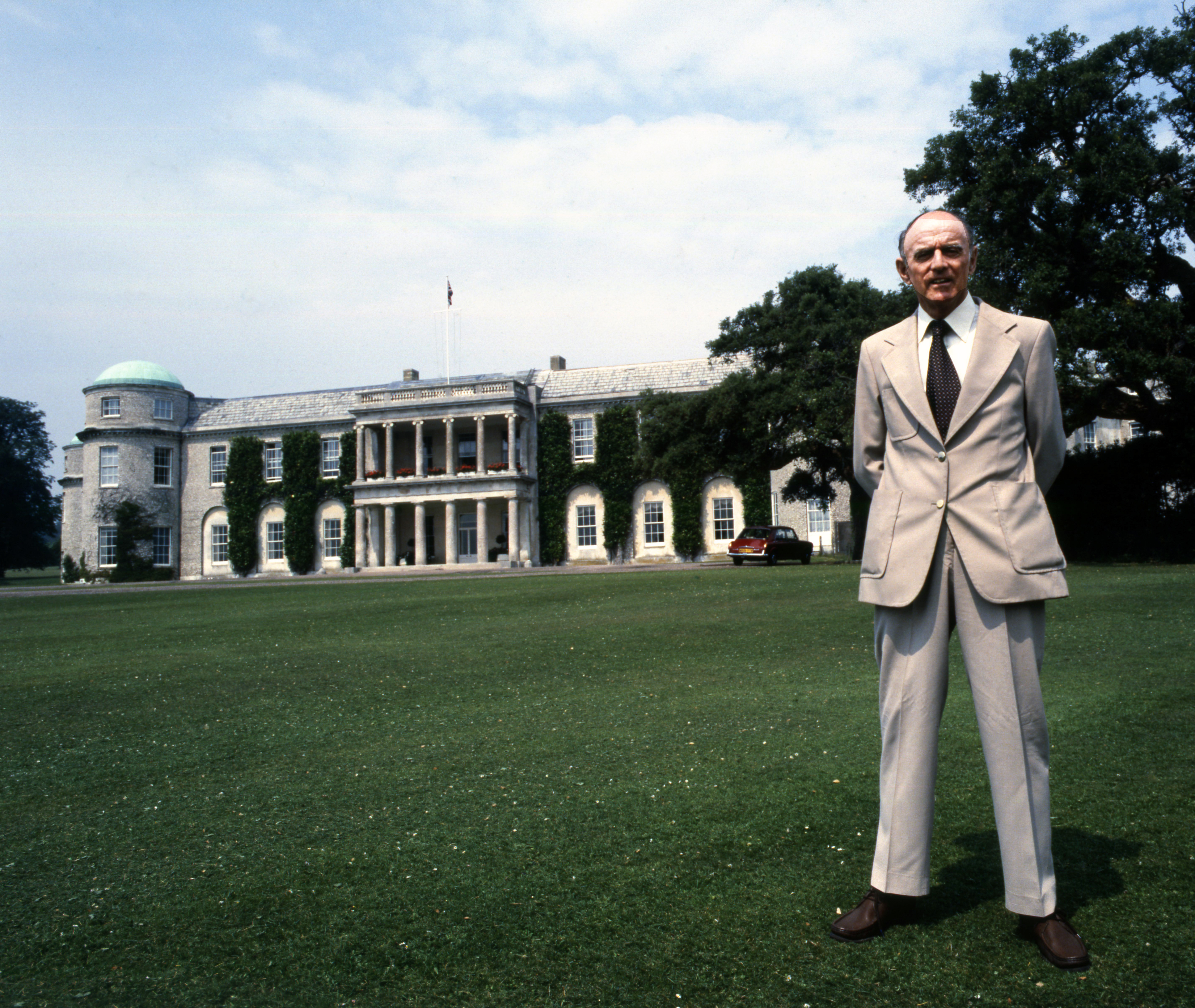 9th Duke of Richmond, 9th Duke of Lennox, 4th Duke of Gordon outside his family seat, Goodwood House, England